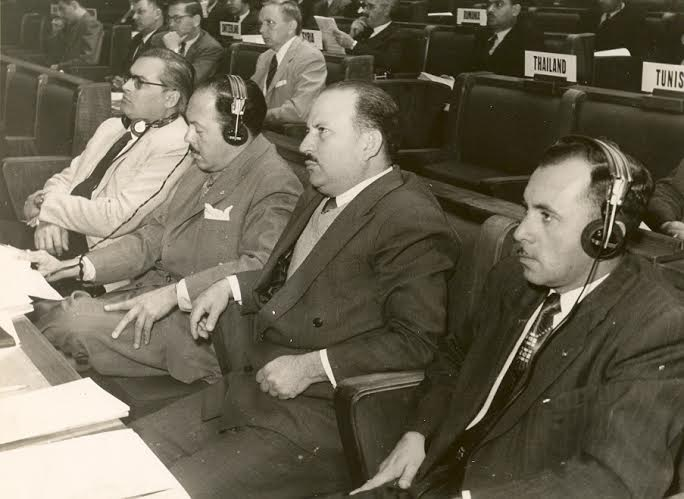 WMO (World Meteorological Organization) Congress, Geneve, 1955